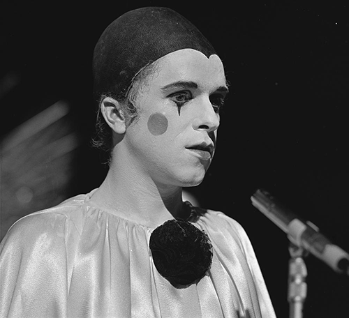 Leo Sayer as Pierrot, perfoming his song The Show Must Go On in AVRO's TopPop (Dutch television show) in 1974